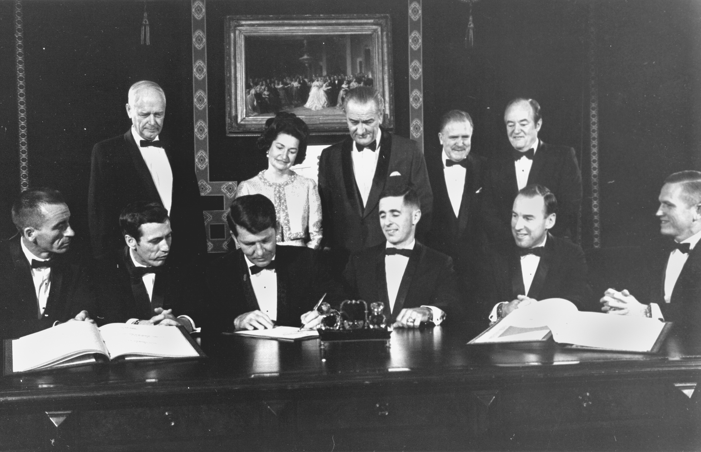 Apollo 7 and 8 flight crews sign a commemorative document to be hung in the Treaty Room of the White House honoring the occasion. Those signing are from left to right: Apollo 7 Astronauts:Walter Cunningham, Donn F. Eisele, and Walter M. Schirra. Apollo 8 Astronauts: William A. Anders, James A. Lovell, Jr., and Frank Borman. Standing are: Charles A. Lindbergh (also a signer), Lady Bird Johnson, President Lyndon B. Johnson, NASA Administrator James E. Webb, and Vice President Hubert H. Humphrey.